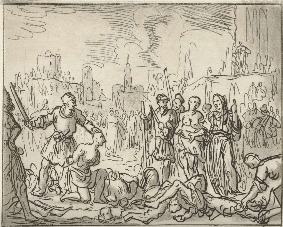 Felicitas with her seven sons beheaded, 12cm × 14,3cm